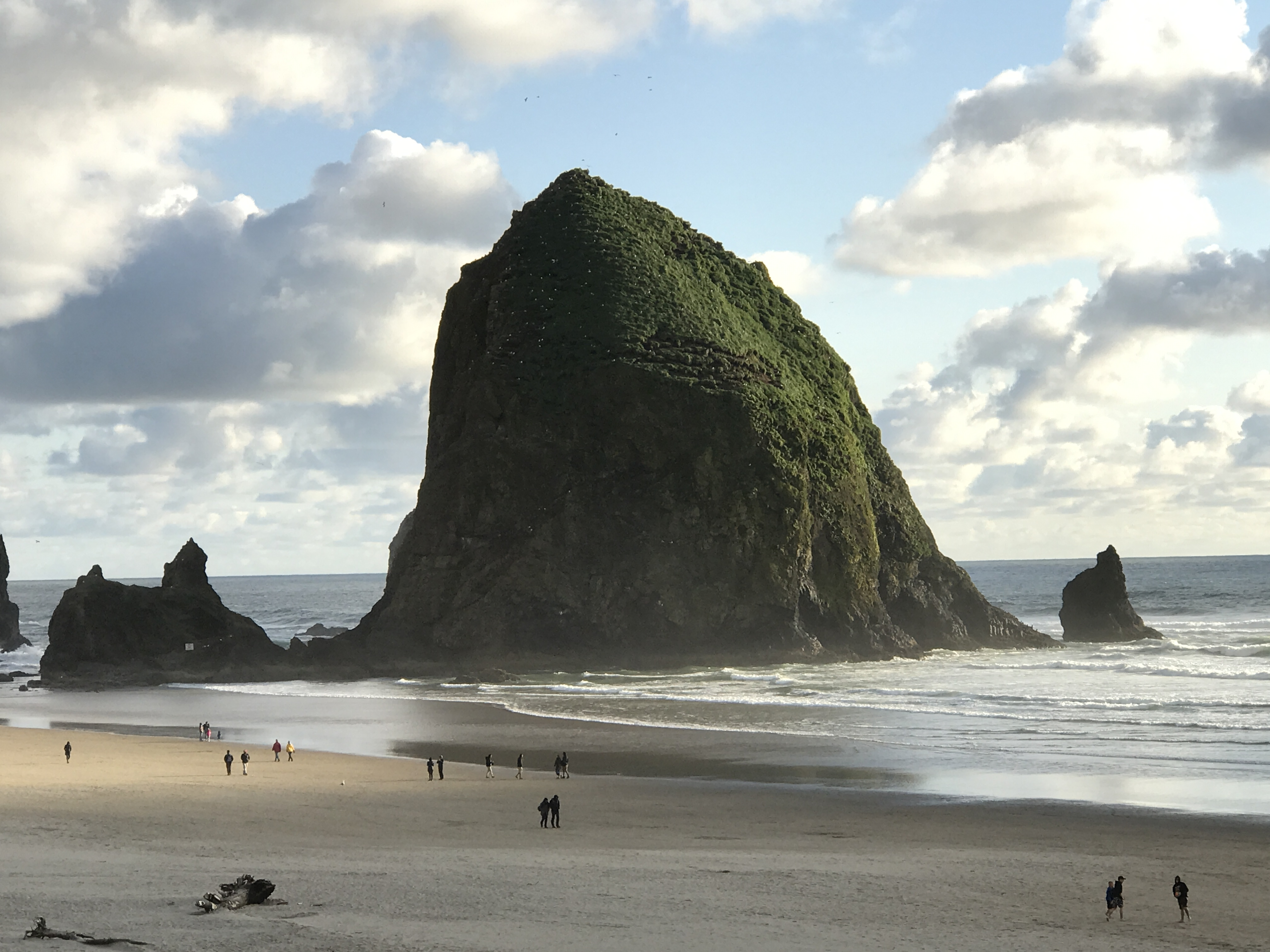 Taken in the evening on May 6, 2017.